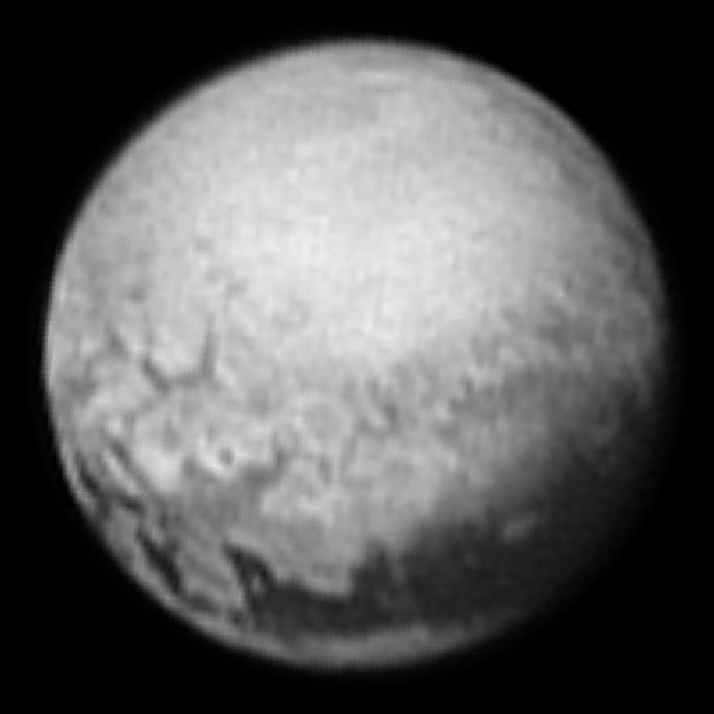 Pluto photographed by the LORRI instrument aboard New Horizons on 9 July 2015.